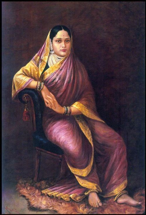 Portrait of Maharani Chimanbai